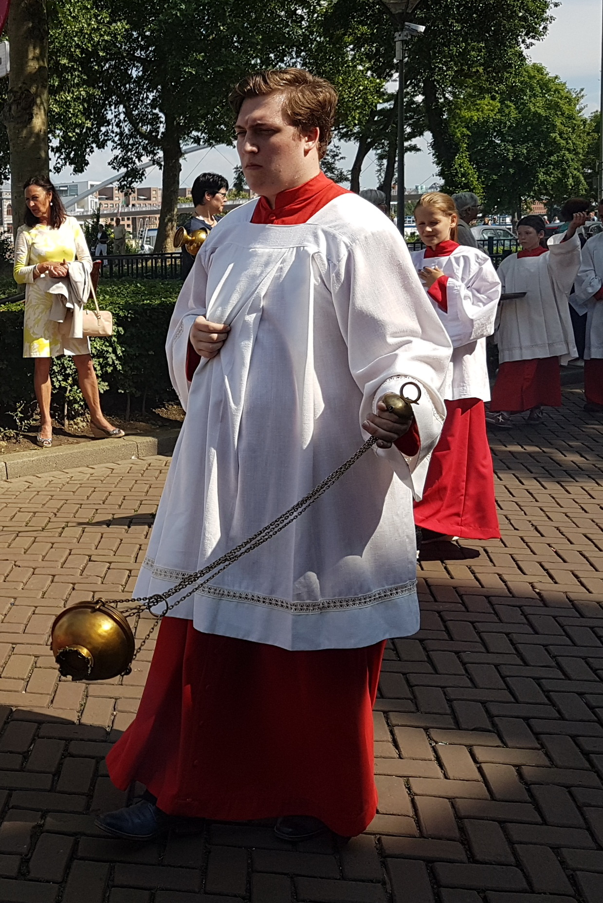 Young participants in a historic religious procession during the 2018 Heiligdomsvaart (Relics Pilgrimage) in Maastricht, Netherlands. The history of this seven-yearly catholic pilgrimage goes back to the Middle Ages. The first 'modern' version took place in 1874. On both Sundays of the 10-day festival, a procession is held in which the main relics and other devotional objects are exhibited. This photo was taken at Het Bat during the (second) procession on Sunday 3 June 2018. The group of altar servers, some with thuribles (thuriferars), proceeds the Noodkist or reliquary chest of Saint Servatius, the apogee of the procession.